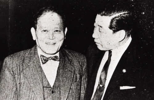 Kim Dh and Cho By, in Seoul, 1952